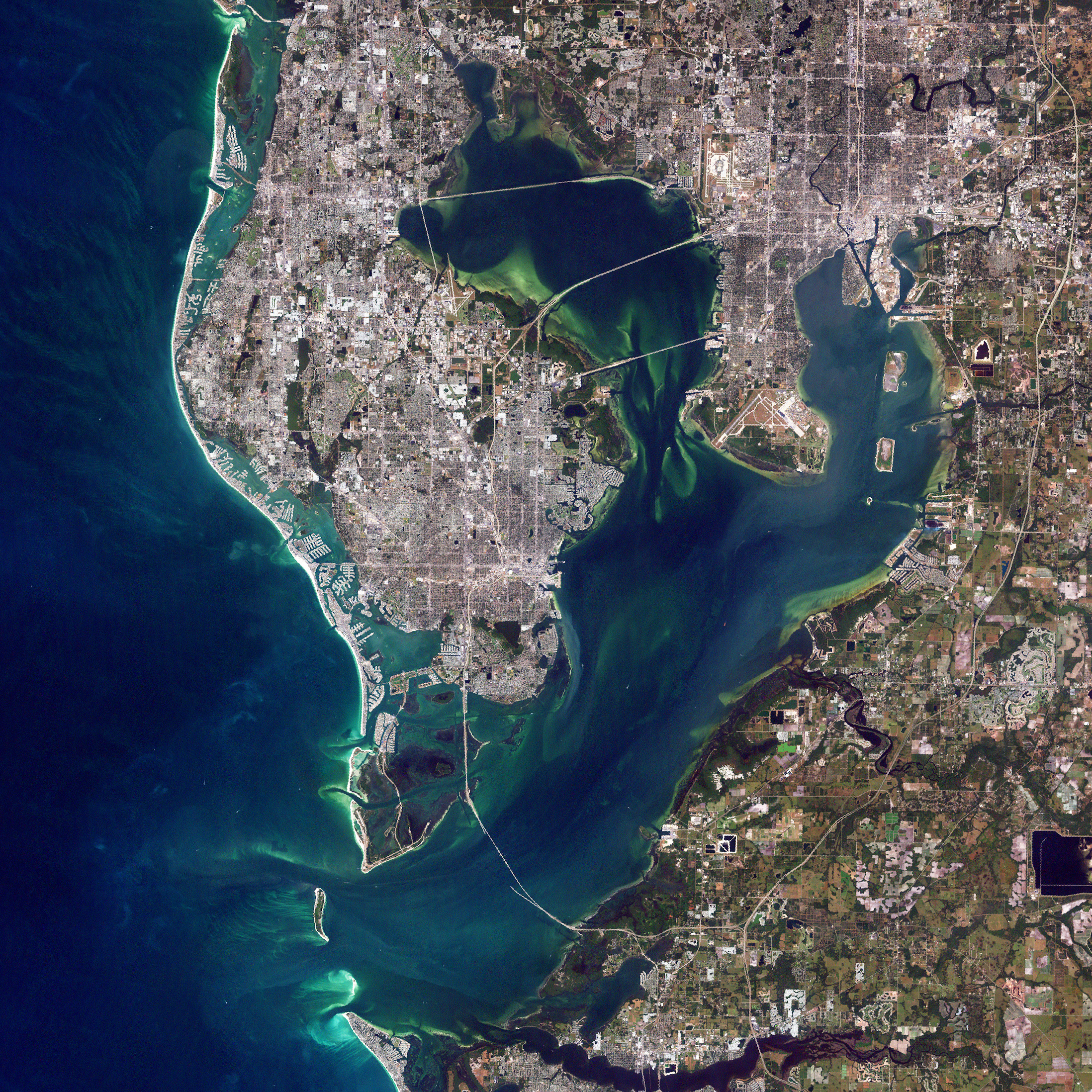 Satellite image of Tampa Bay, Florida, USA. The cities of St. Petersburg (on the peninsula) and Clearwater are easily visible.